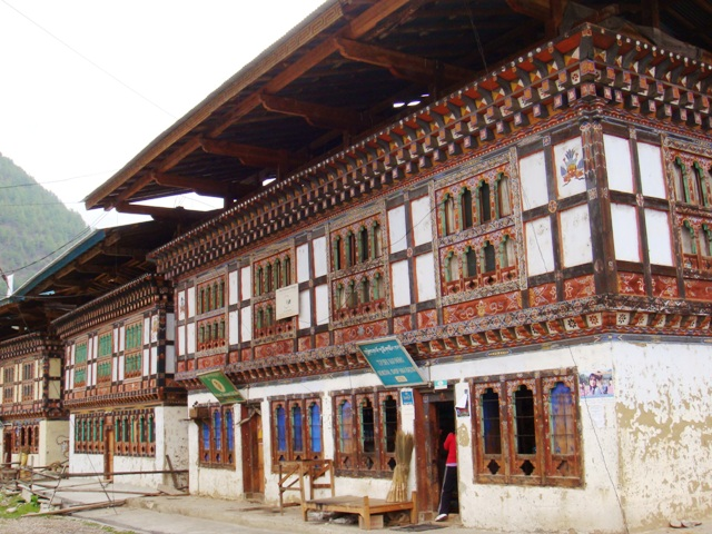 Traditional style hose, Haa.